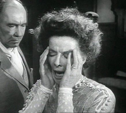 Cropped screenshot from the original trailer for the 1962 film Long Day's Journey into Night. Seen in the image are Katharine Hepburn and Ralph Richardson.